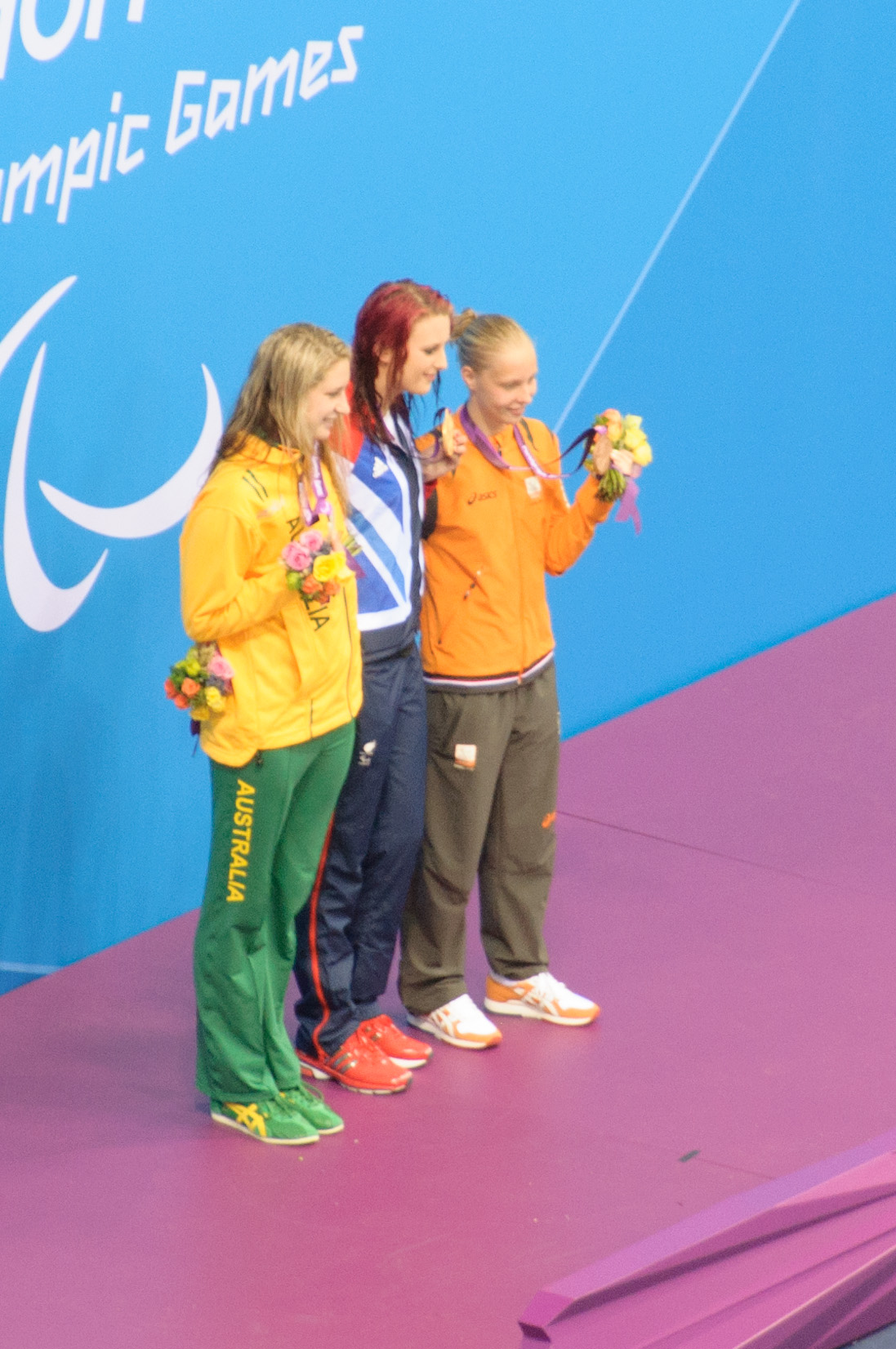 Jessica-Jane Applegate with her gold medal in the S14 200m Freestyle - Evening (Finals) session, 2 September 2012